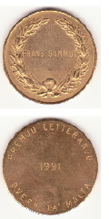 Government of Malta Literary Prize given to Frans Sammut in 1991 for the novel Paceville